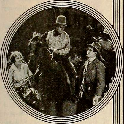 Still from the American comedy western It's a Bear (1919) with Vivian Reed, Howard Davies, and Taylor Holmes, on page 15 of the April 1919 Film Fun. The ranch foreman and school teacher find the appearance of the newly arrived college graduate, come to oversee the ranch, amusing.